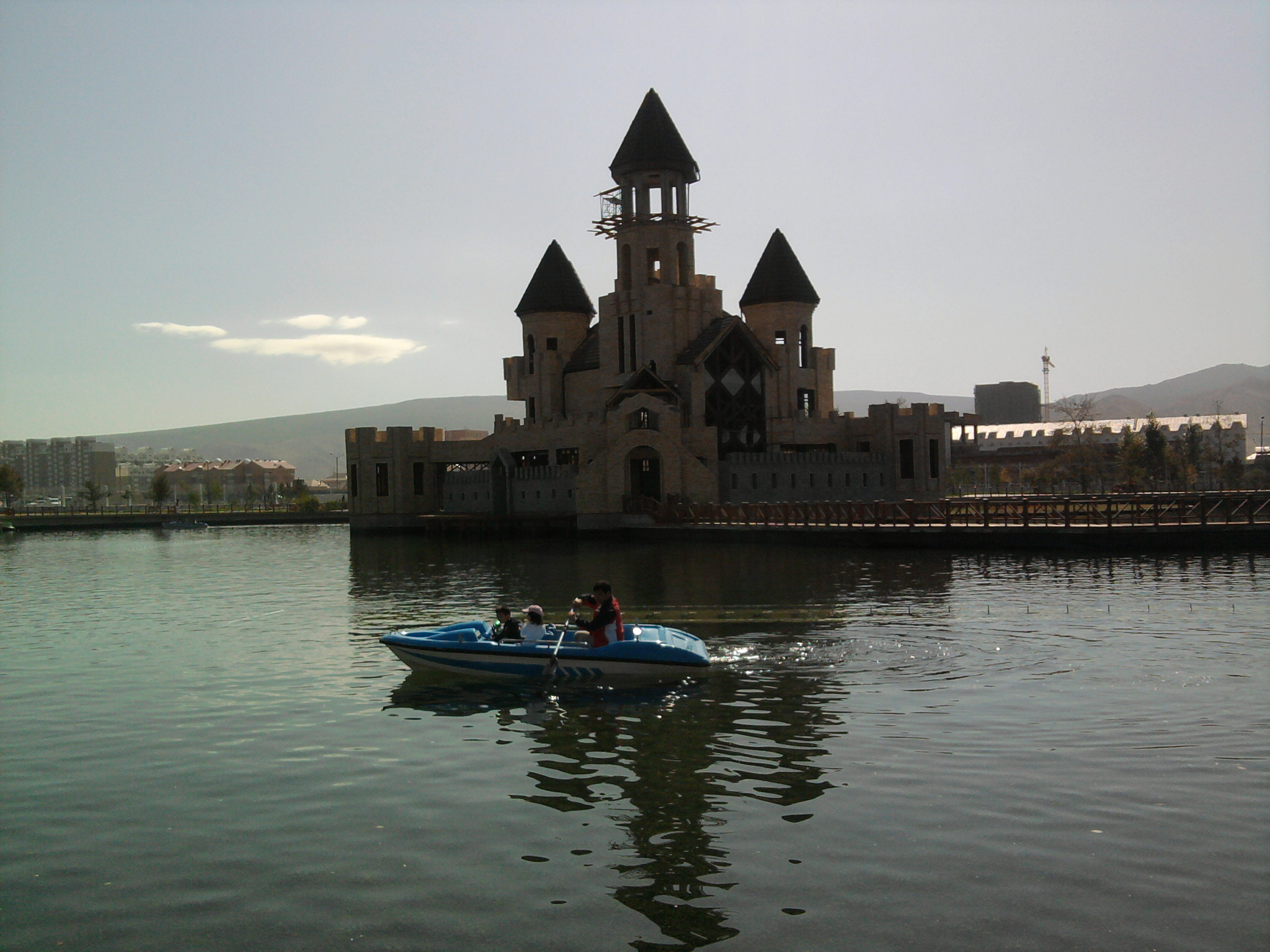 Rebuilt castle in Ulaanbaatar